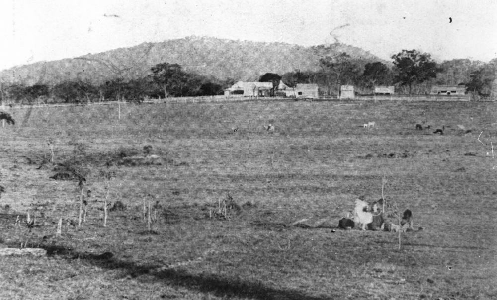 Raspberry Creek homestead, ca. 1865 Possibly during the time Francis Lascelles Jardine (1841-1919) owned the property. Jardine named the station Raspberry Creek because of presence of wild raspberries. Raspberry Creek Station is in the Livingstone Shire between Rockhampton and Mackay.